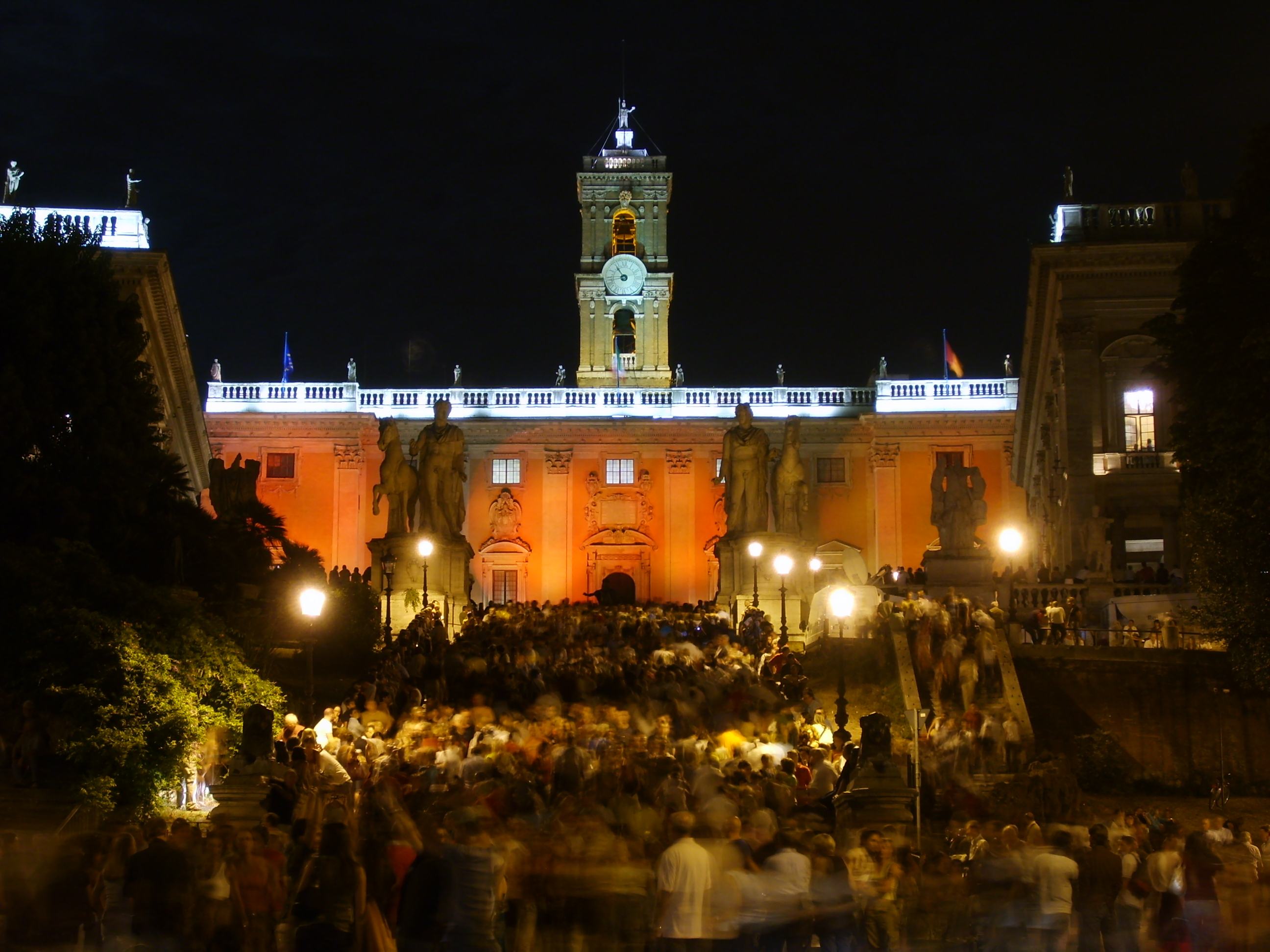 View of the stairs leading to the Campidoglio at night, during the Notte bianca event on 9th September 2006